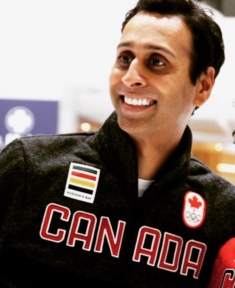 Photo of Ravi Walia taken February 2018